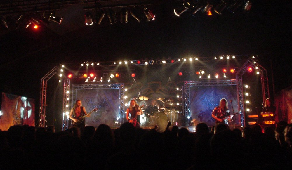 Gamma Ray, Live in Lichtenfels, Majestic Tour, 14.10.2005